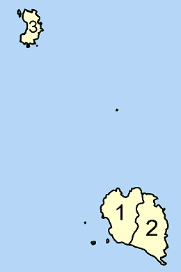 Map of Ko Pha-ngan district, Surat Thani province, with the communes (tambon) numbered Ko Pha-ngan (เกาะพะงัน) Ban Tai (บ้านใต้) Ko Tao (เกาะเต่า)